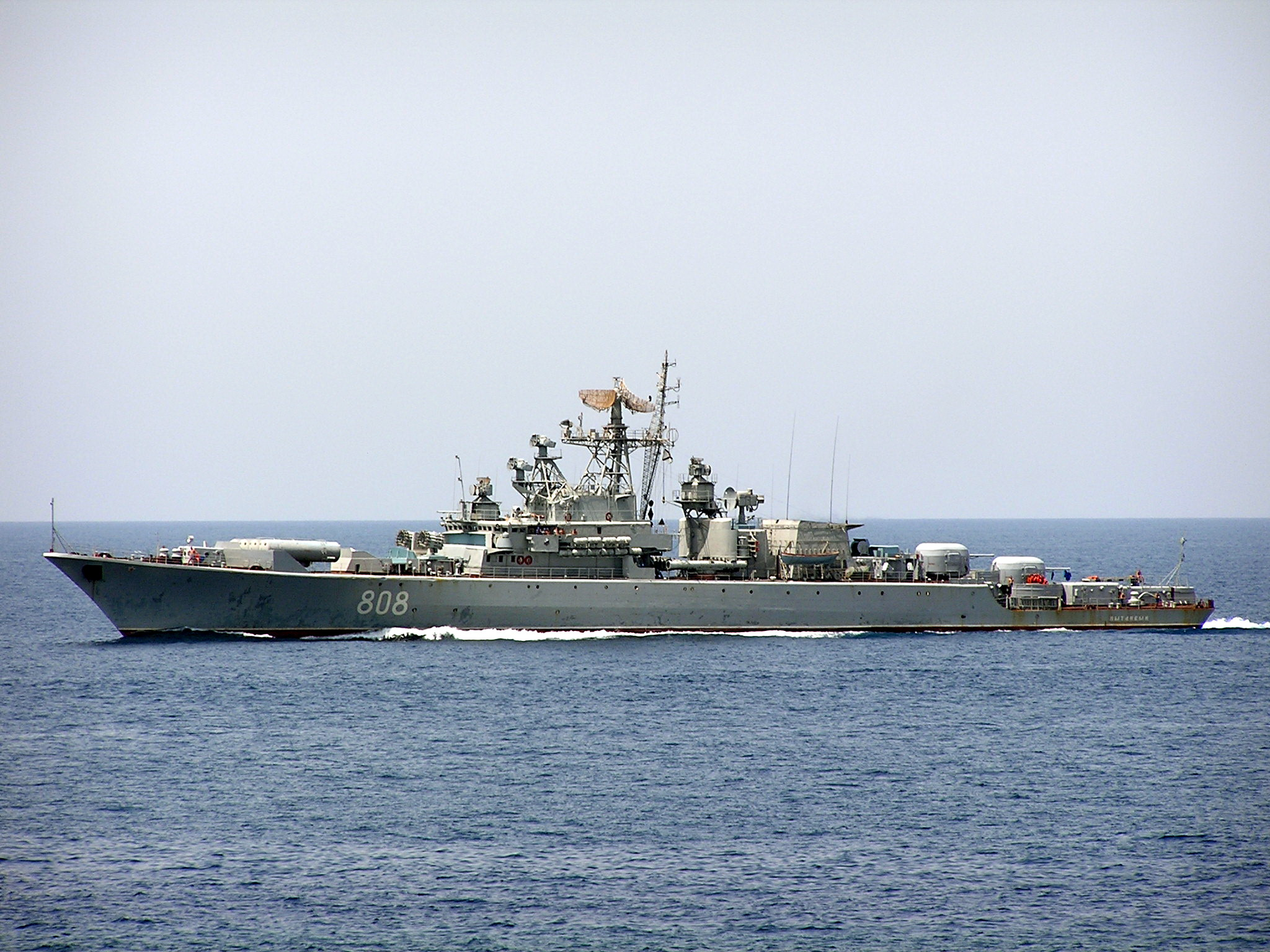 Krivak russian frigate Pytlivij in Red Sea